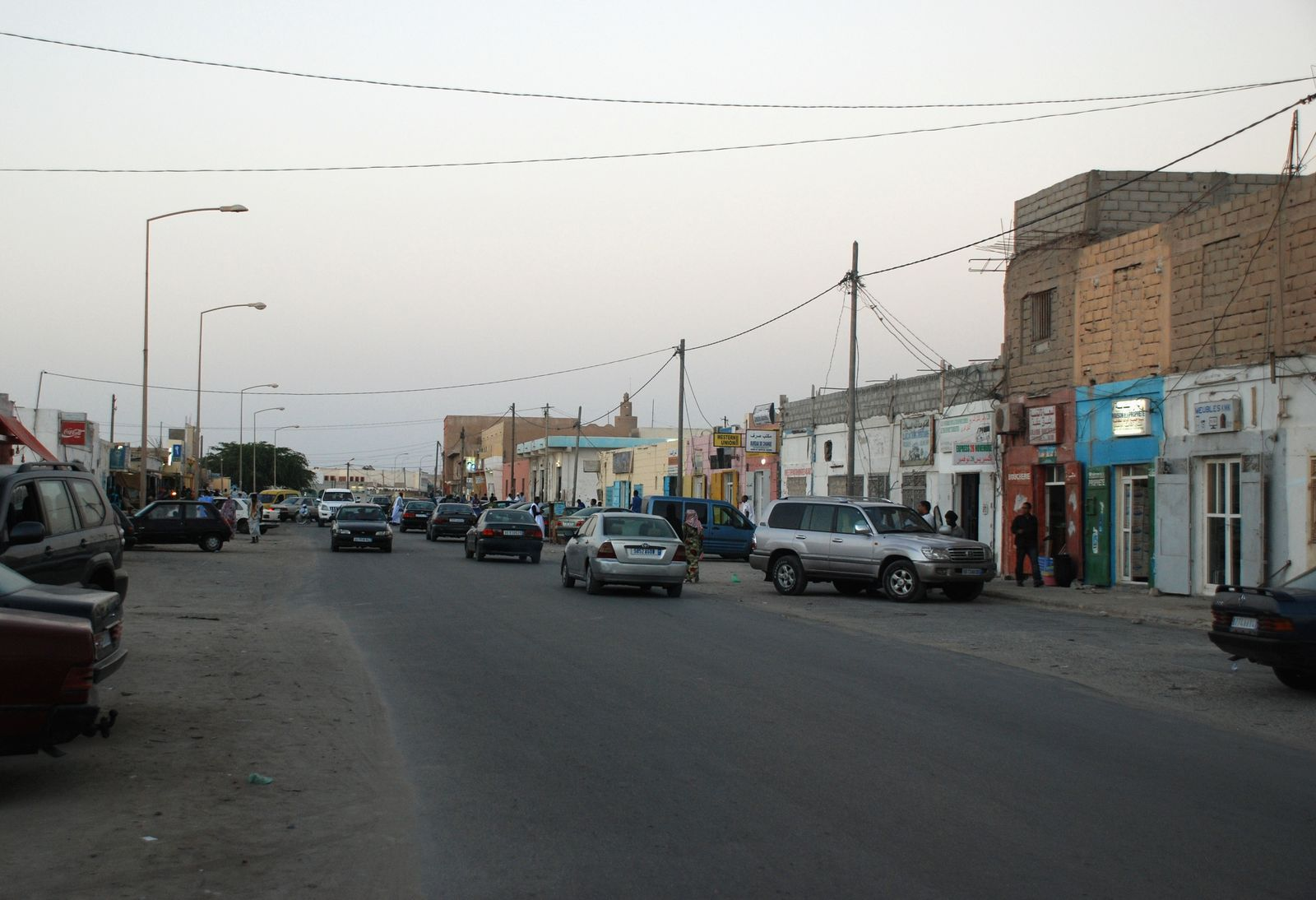 Nouadhibou, Mauritania, Blvd. Médian